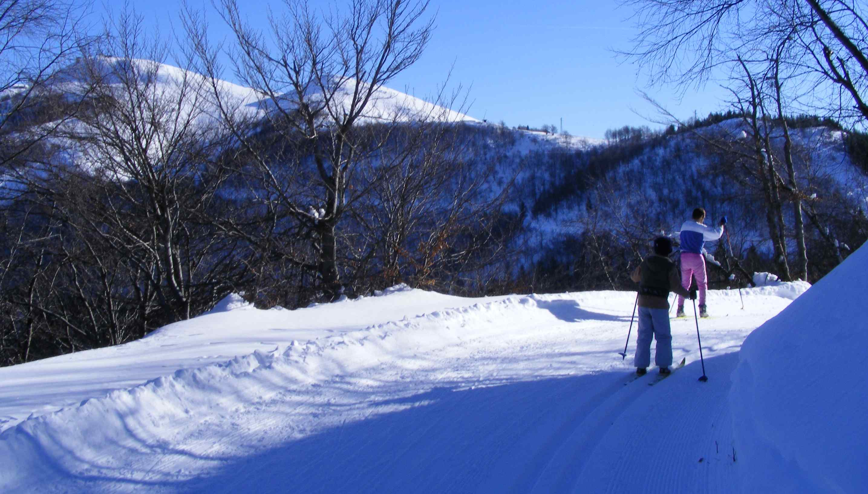 A cross-country ski track near the Bocchetto di Sessera (Biellese, Piedmont, Italy)